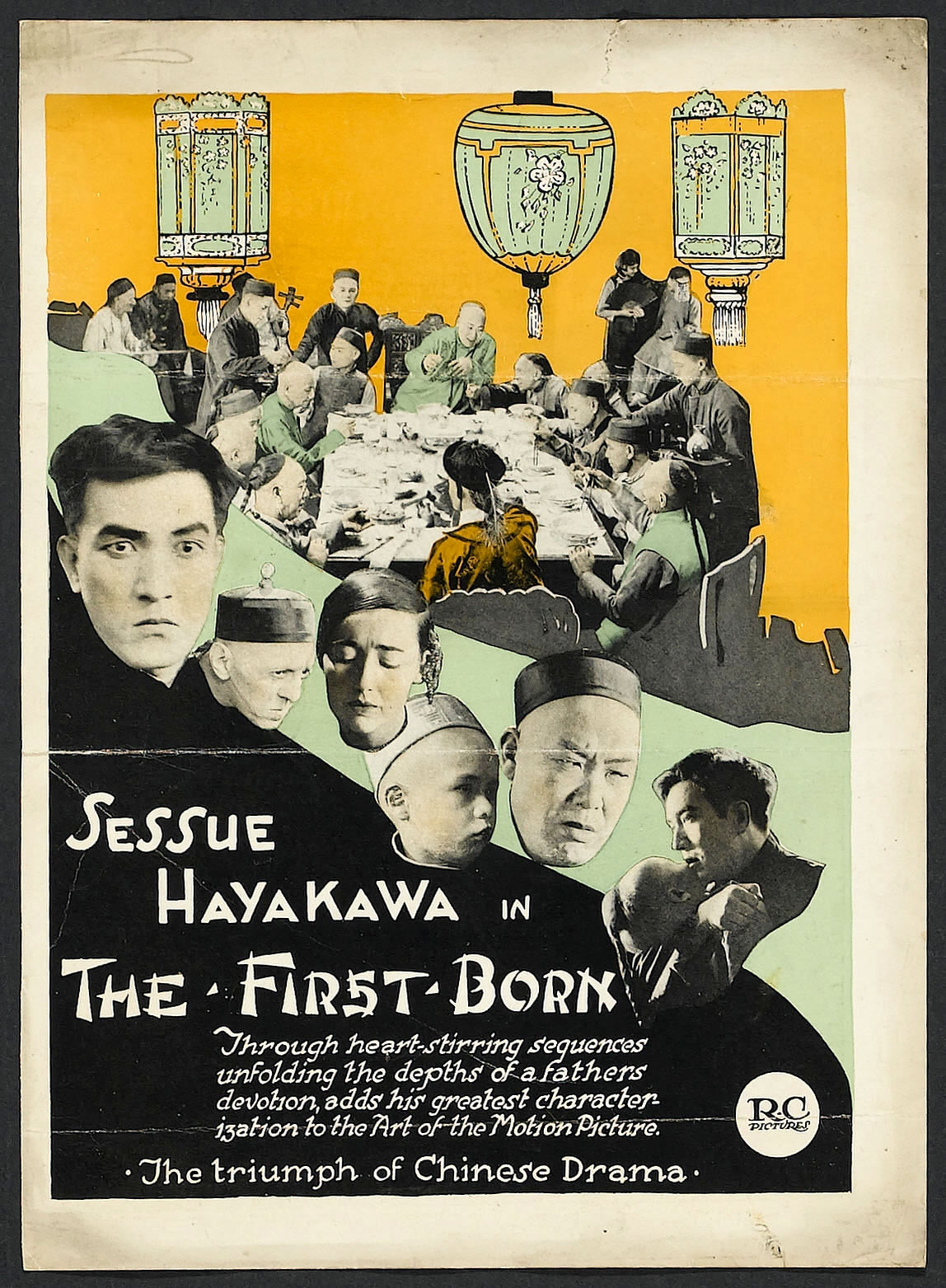 Poster for the American film The First Born (1921) with Sessue Hayakawa.